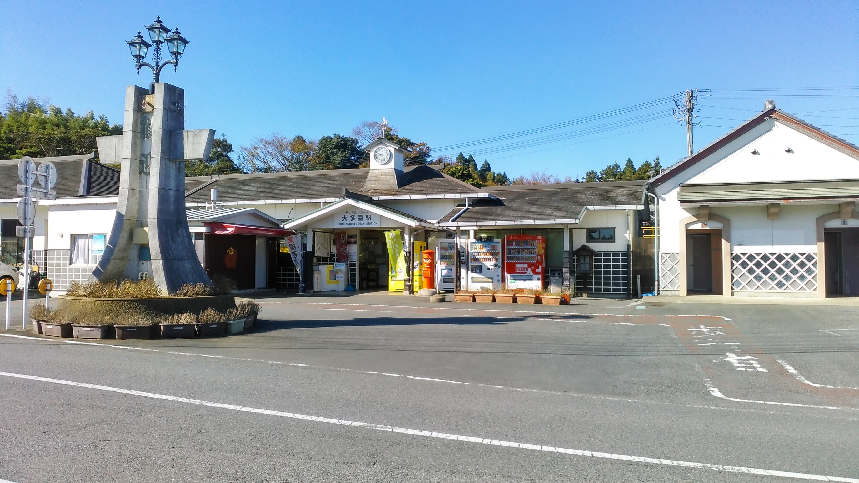 Ōtaki Station on the Isumi Railway in Ōtaki, Chiba, Japan.